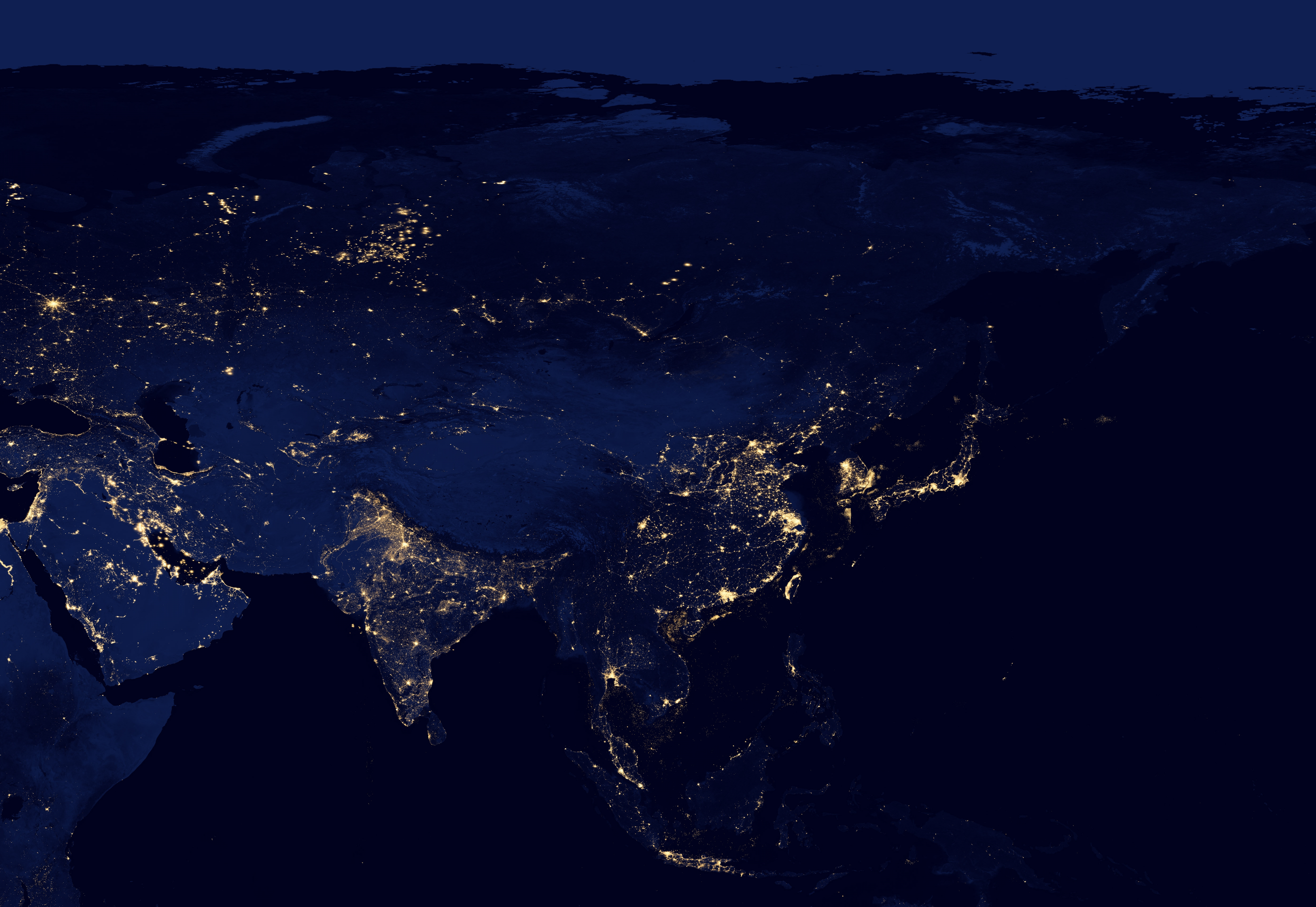 This view of East Asia at night is a composite image assembled from data acquired by the Suomi National Polar-orbiting Partnership (Suomi NPP) satellite over nine days in April 2012 and thirteen days in October 2012.